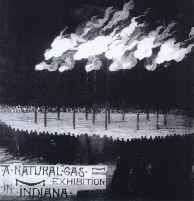 A picture of a gas light (flambeau) display